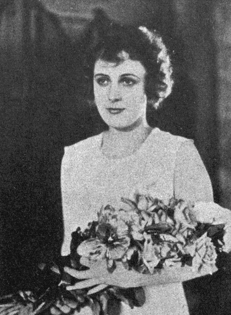 Margita Alfvén (1905-1962), Swedish actress; daughter of composer Hugo Alfvén. Photo from the sheet music of the tune När rosorna slå ut, published 1930.